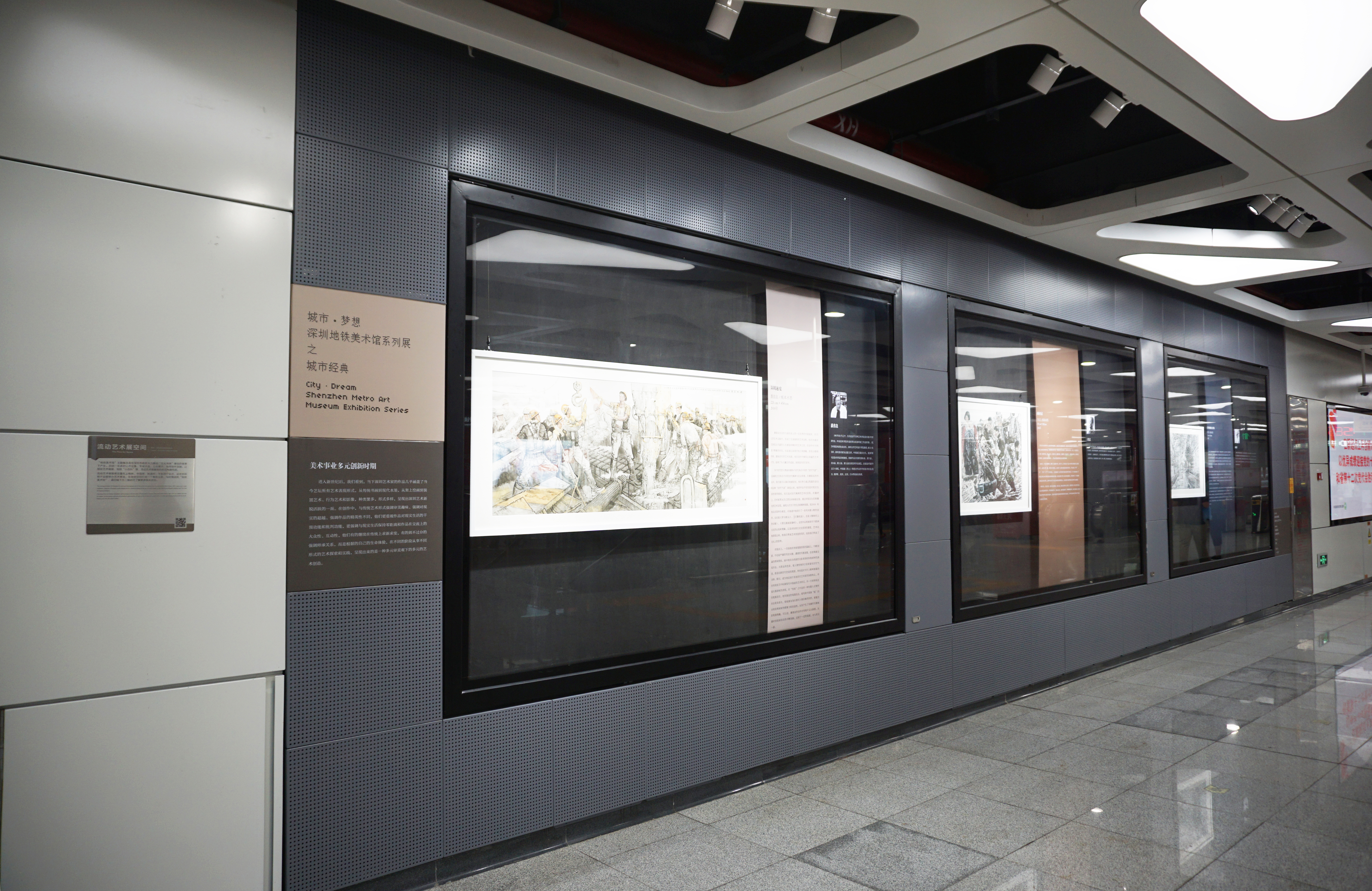 Taoyuancun Station in Nanshan District, Shenzhen.